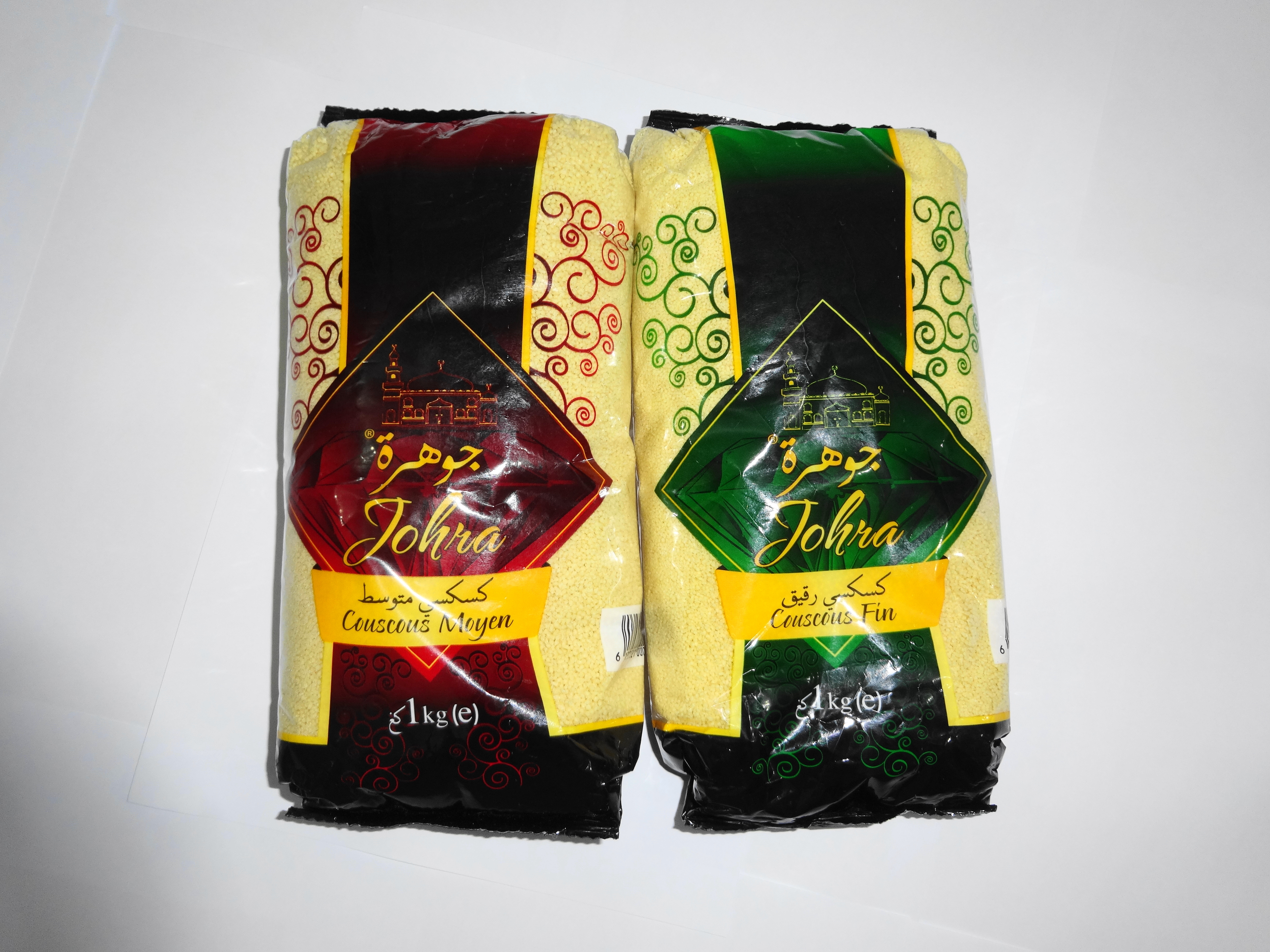 الكسكس